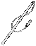 Weapon